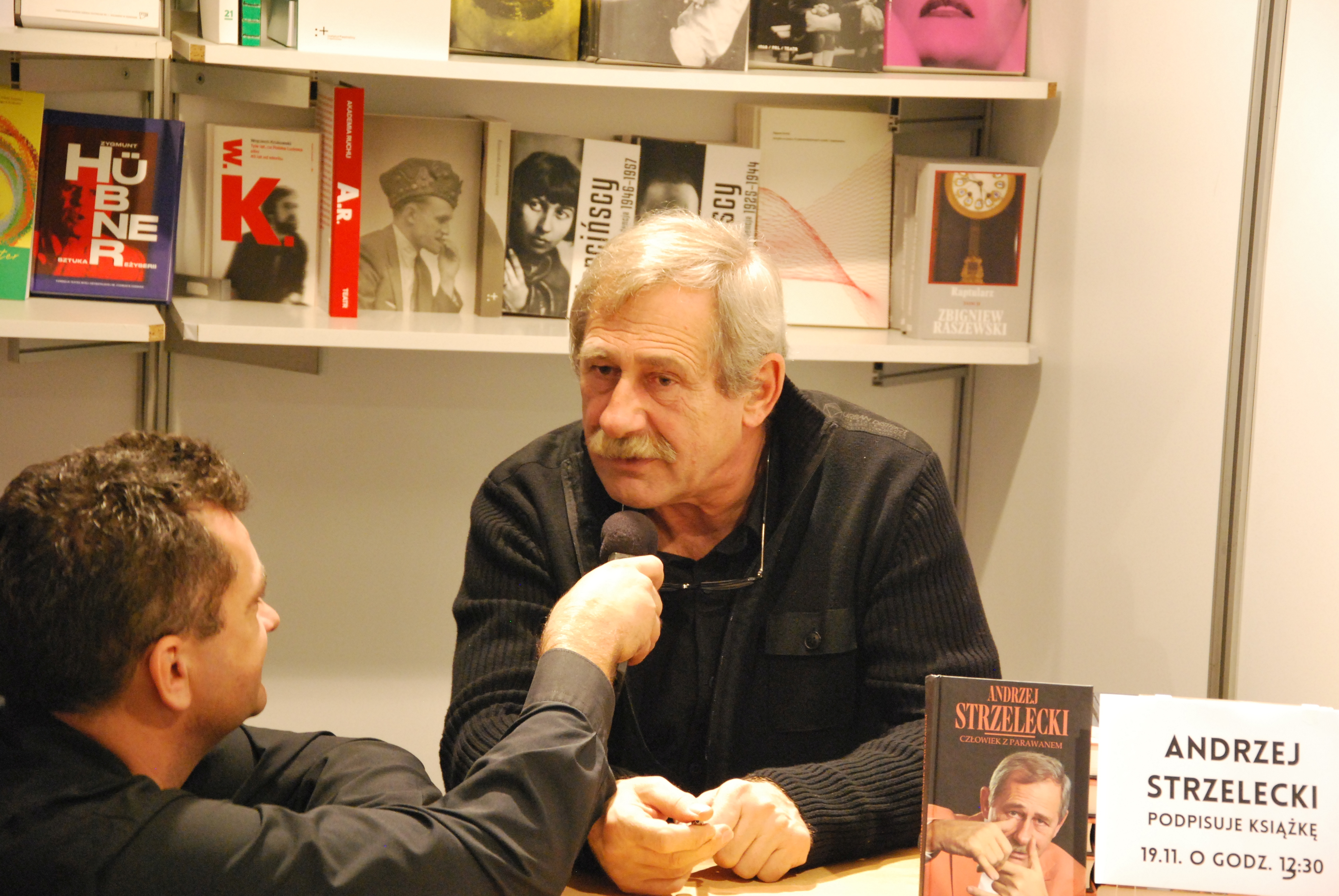 Director and actor Andrzej Strzelecki in Saloon of a Interesting Book 2016, Łódź